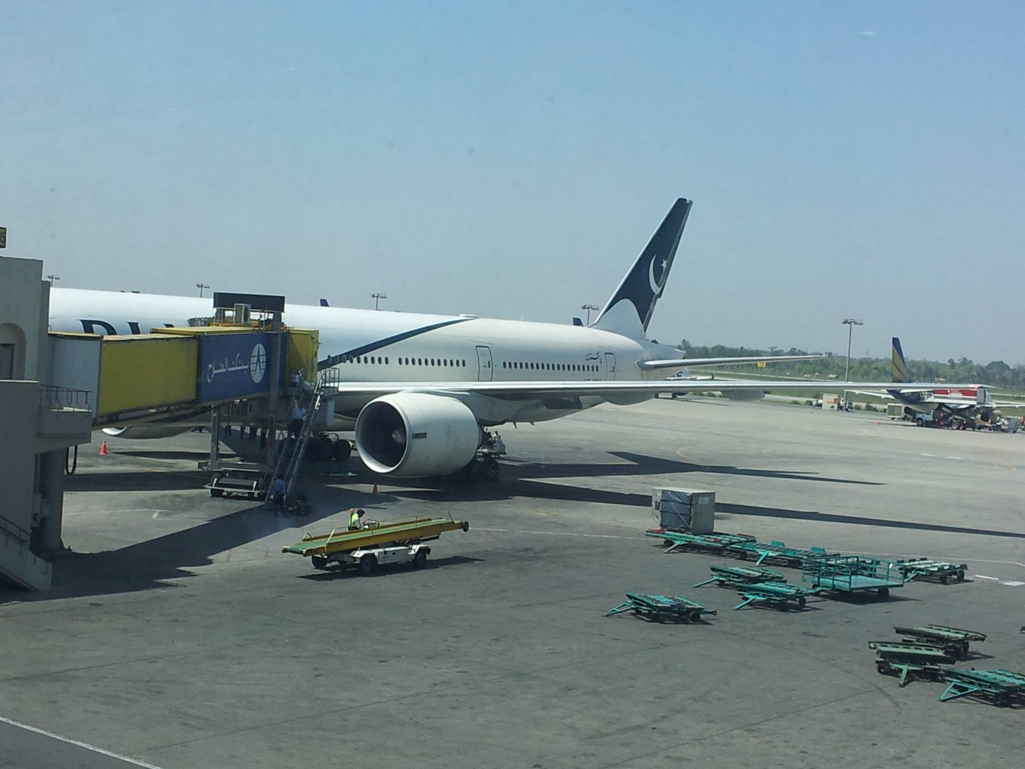 A Pakistan International Airlines Boeing 777 at Allama Iqbal International Airport, Lahore